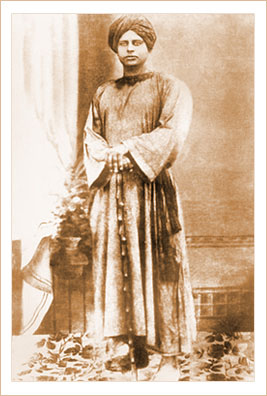 Swami Niranjanananda, a direct monastic disciple of Sri Ramakrishna